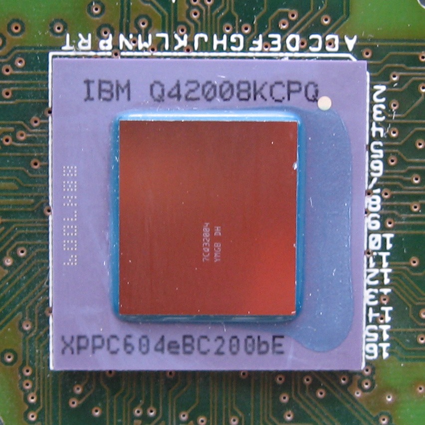 200 MHz IBM PowerPC 604e processor on the CPU module of a Apple Network Server 700.